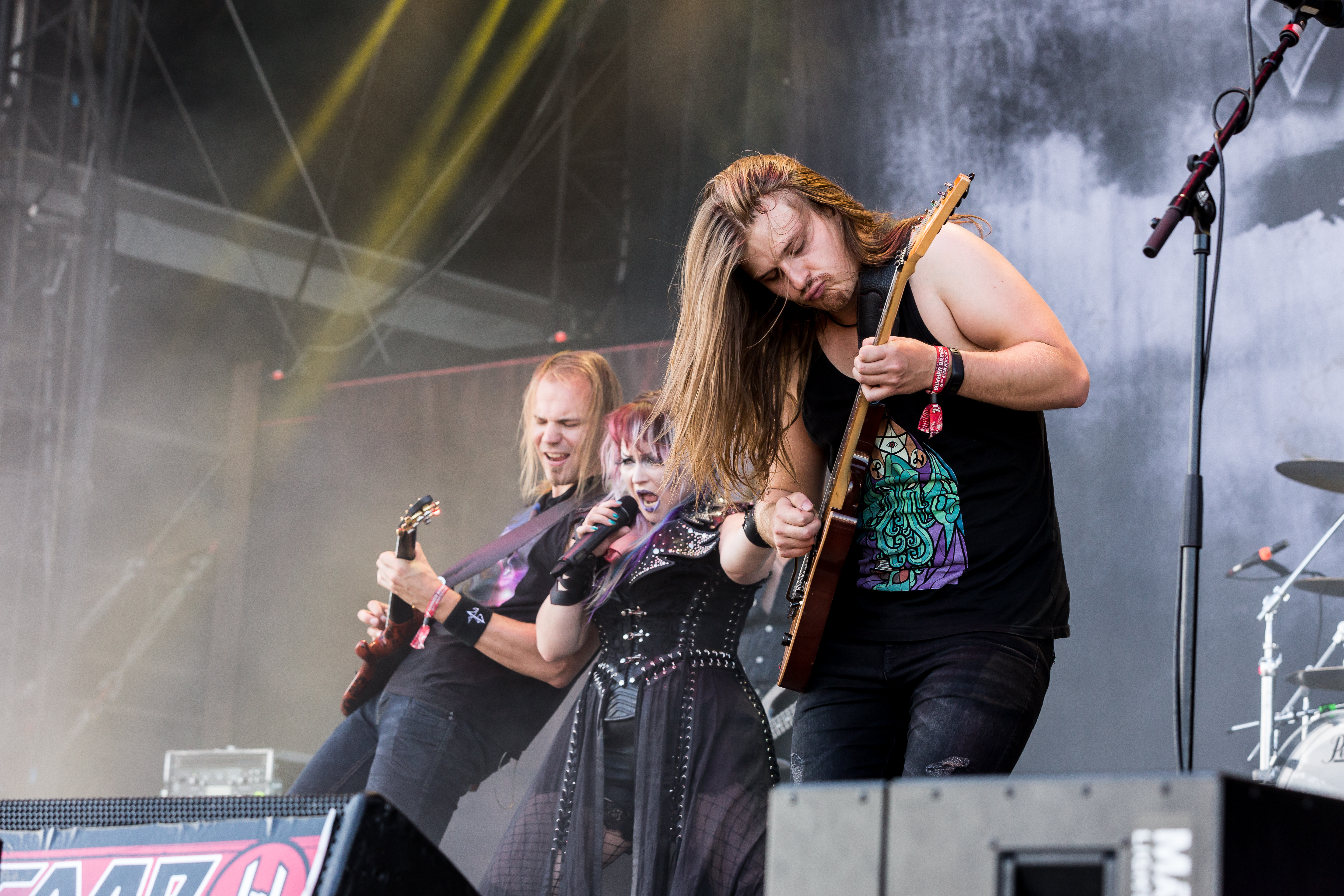 The Finnish heavy metal band Battle Beast at the Summer Breeze Open Air 2017 in Dinkelsbühl/Germany.